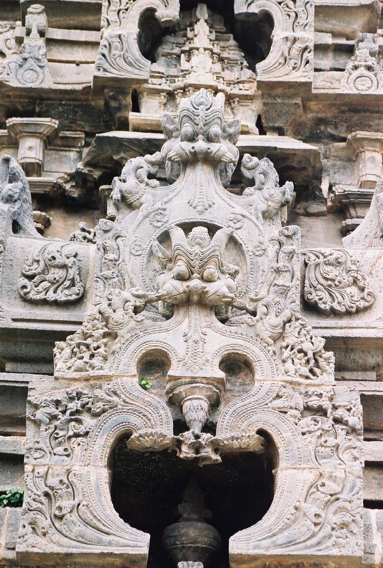 This photograph was taken by me at the Amruteshvara temple (also spelt Amrtesvara or Amruteshwara) at Annigeri in the Dharwad district in Karnataka state, India. The temple is a 1050 A.D. Western Chalukya empire construction